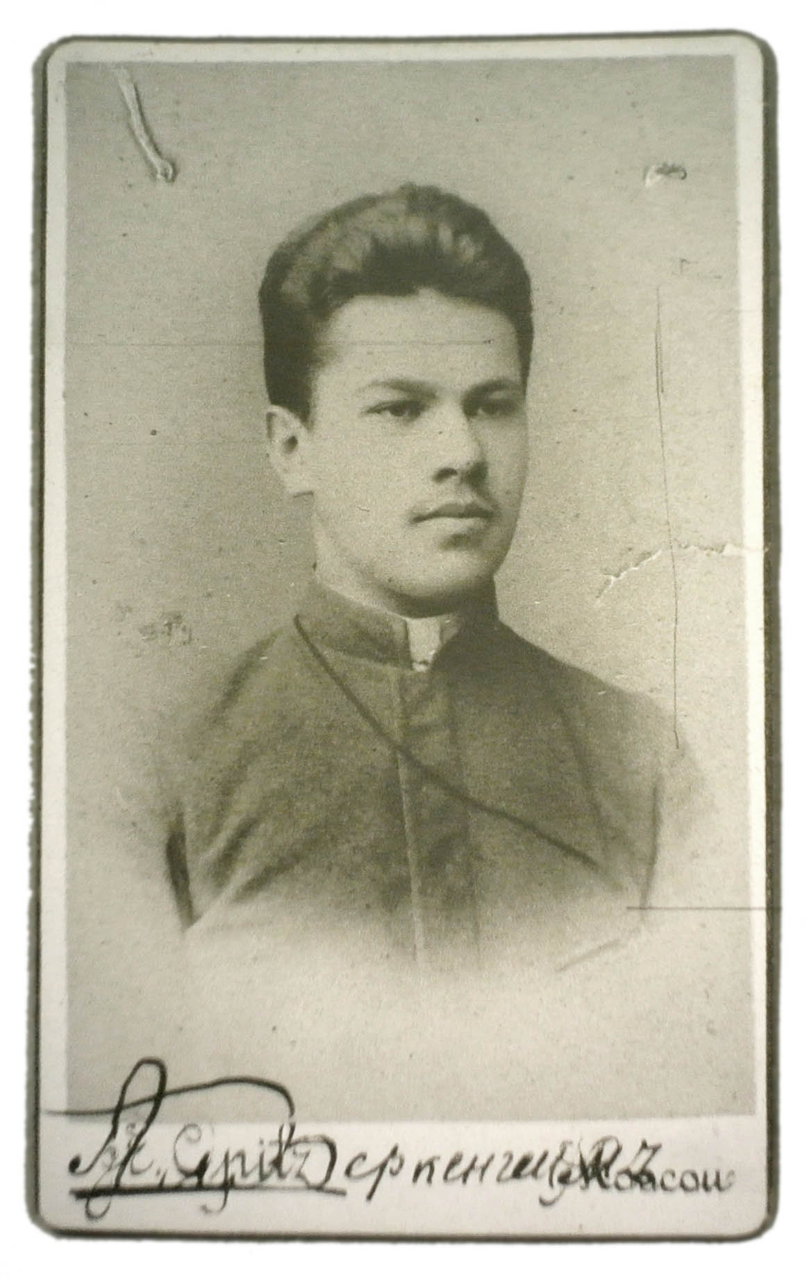 Alexander Berkenheim, Russian revolutioner (eser) and leader of cooperation movement in Russia and Poland